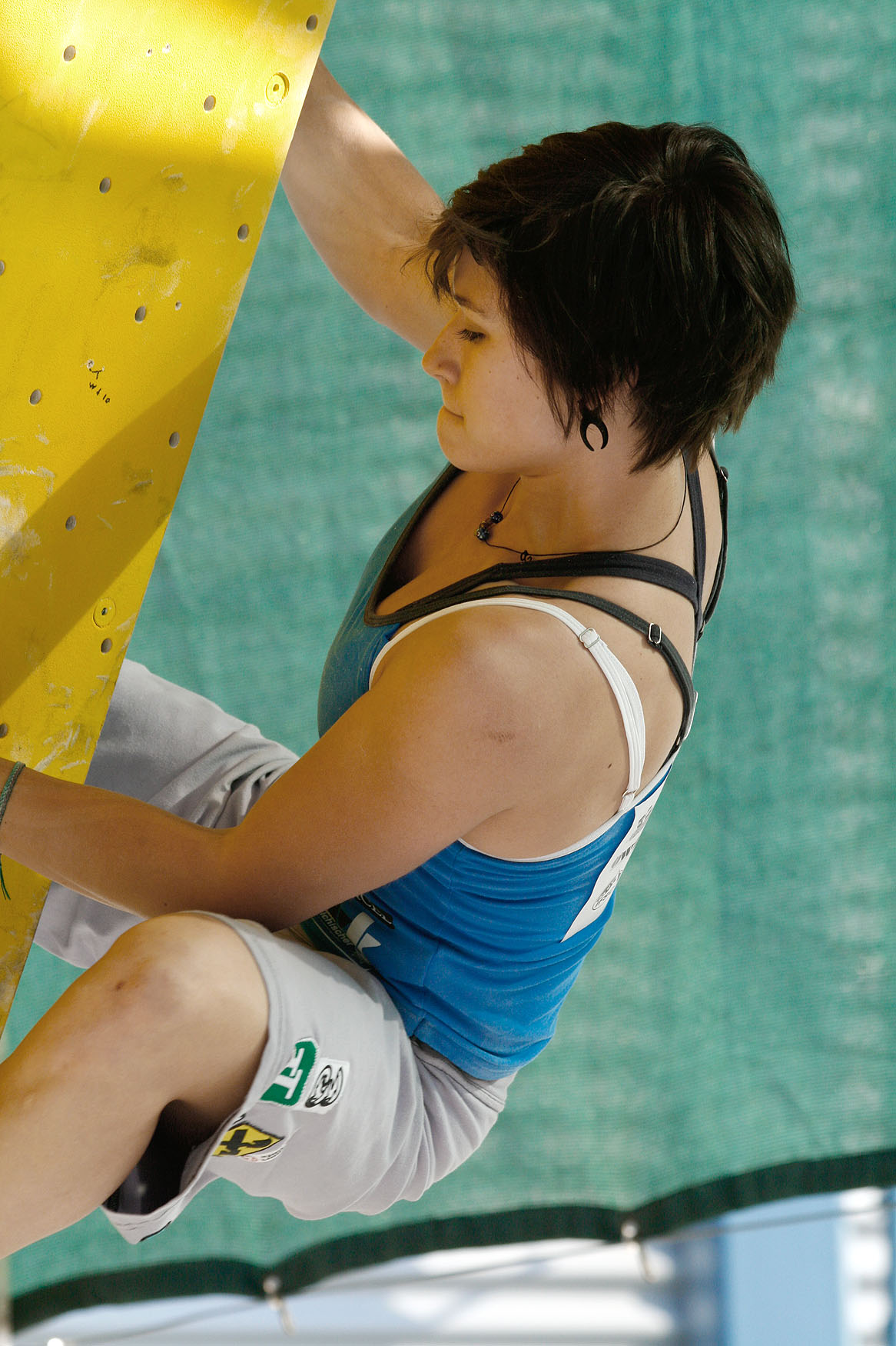 Johanna Ernst during qualifications at the IFSC Boulder Worldcup Vienna 2010.